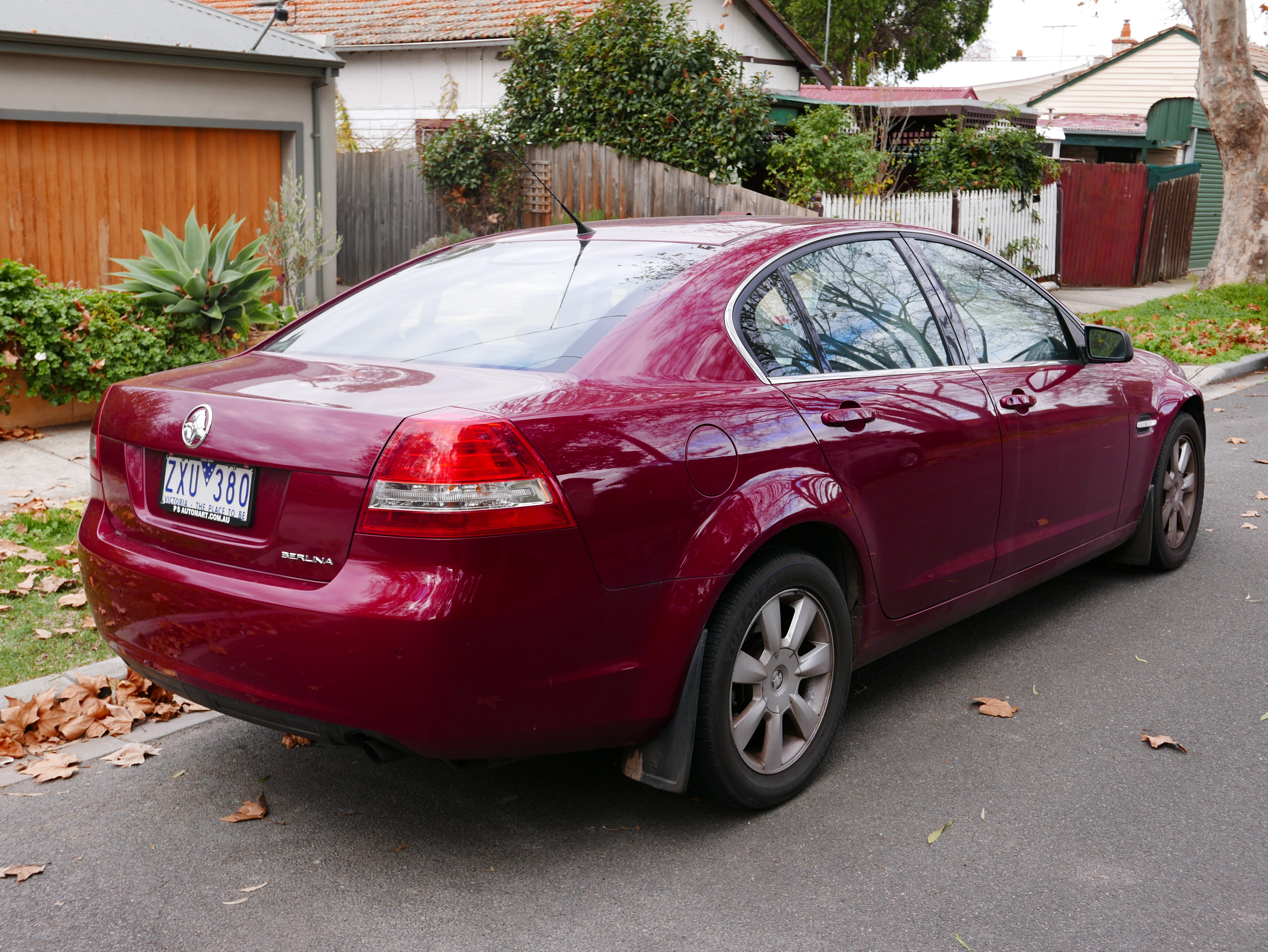 2009 Holden Berlina (VE MY09.5) sedan. Photographed in Northcote, Victoria, Australia. Vehicle registration enquiry resultsJurisdictionVictoriaRegistrationZXU380Chassis code6G1EL55779L320312Engine codeLY7090340052Compliance date2009-02Year of manufacture2009